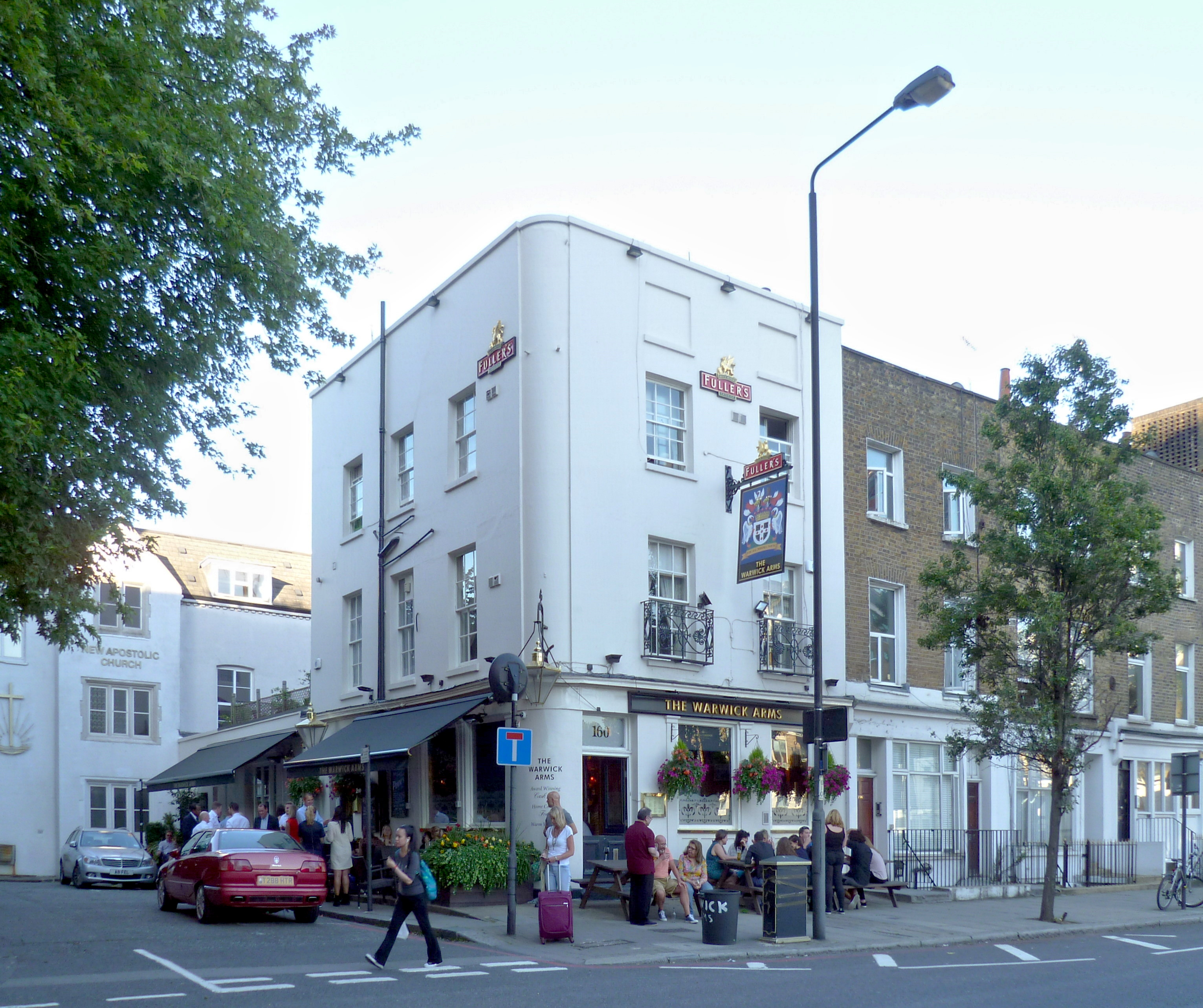 London